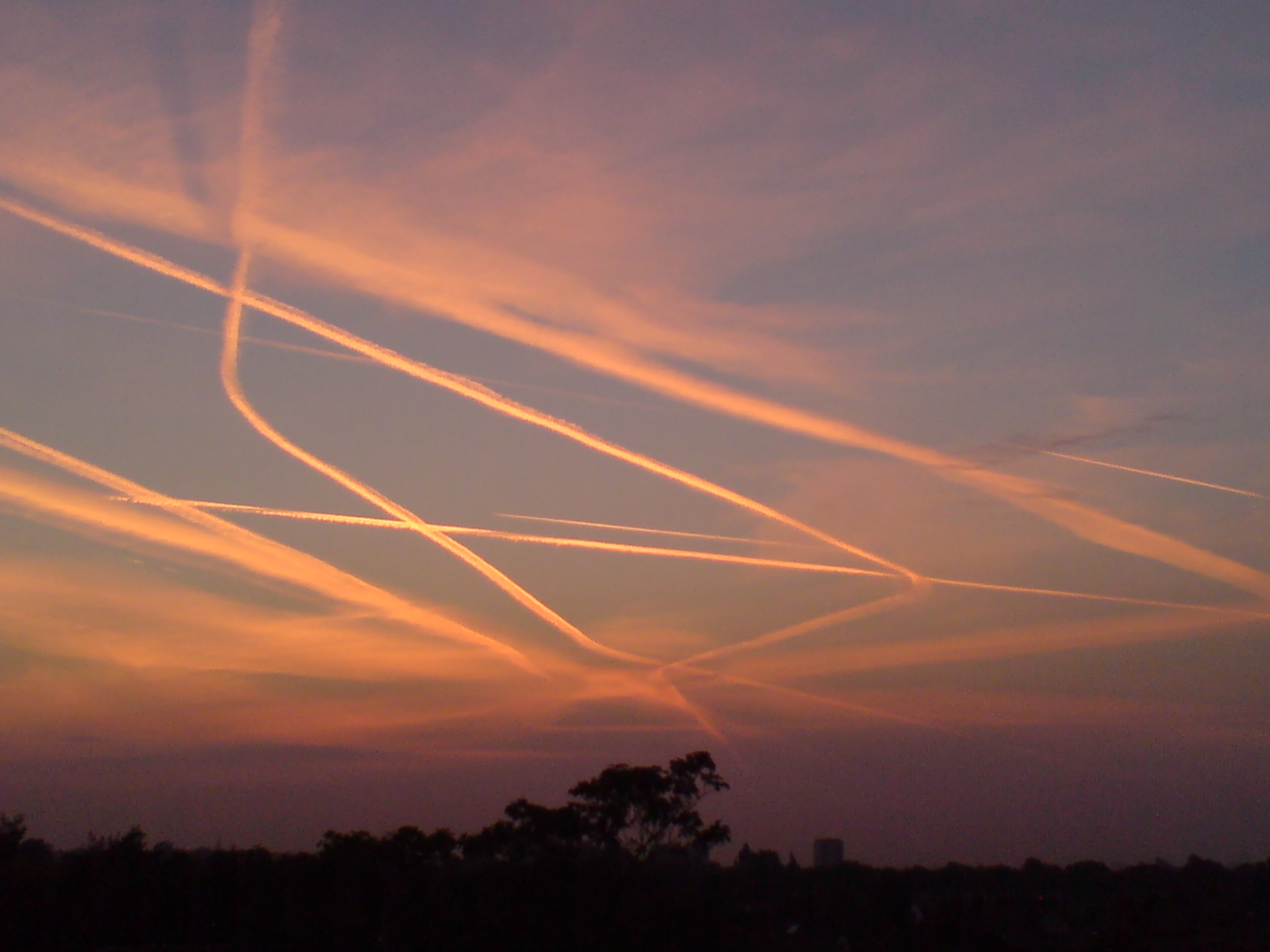 Contrails over London, looking West from Clapham (in the general direction of Heathrow Airport). The sheer number of trails give a sense of the enormous volume of traffic through the airspace. In general if you can see a trail the flight is at high level and almost certainly not landing at the local airport. The trails going right to left in the picture are from Manchester or north thereof with destinations in France or beyond. Bends in the trails show changes in course taken by the aircraft avoiding traffic on instructions from controllers or just following approved routes.